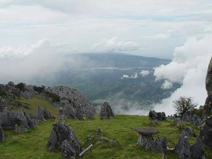 matebian aas